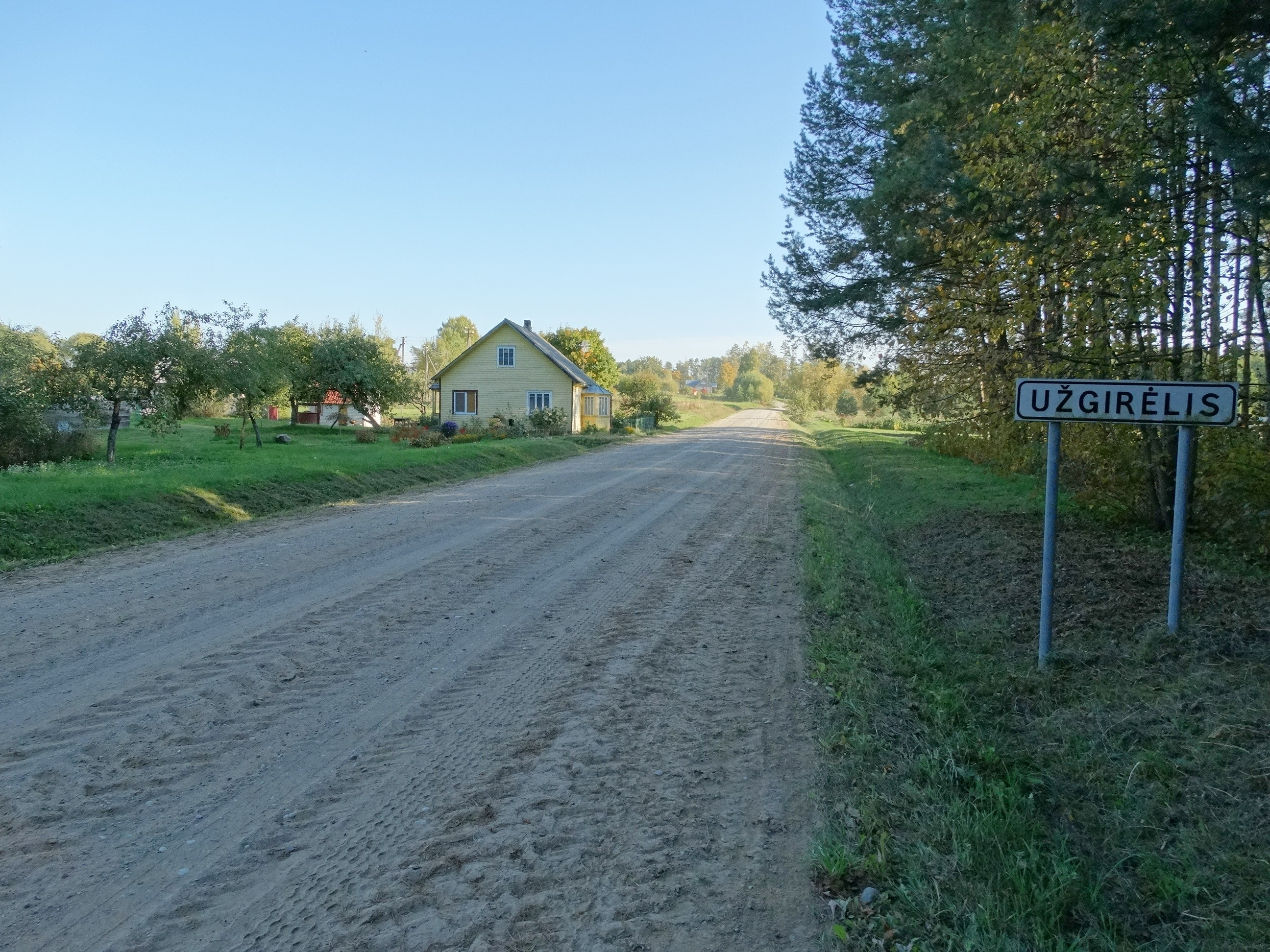 Užgirėlis, Kaišiadorys District, Lithuania